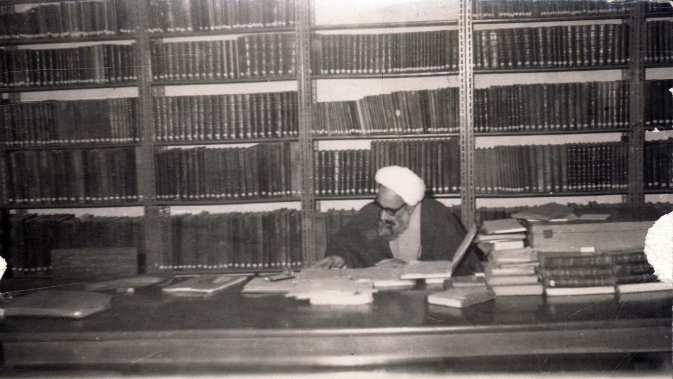 Allame Abdul Hosein Amini in Amir al-Momenin Library